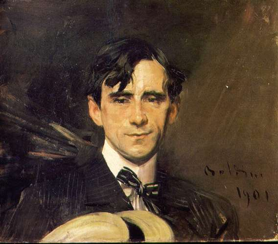 Portrait of Sem (Georges Goursat)